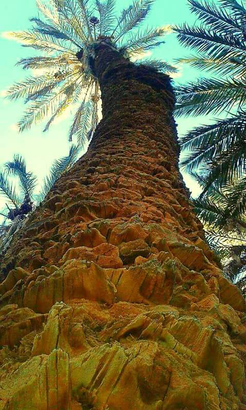 My hometown the Village of Taghjijt in south Morocco